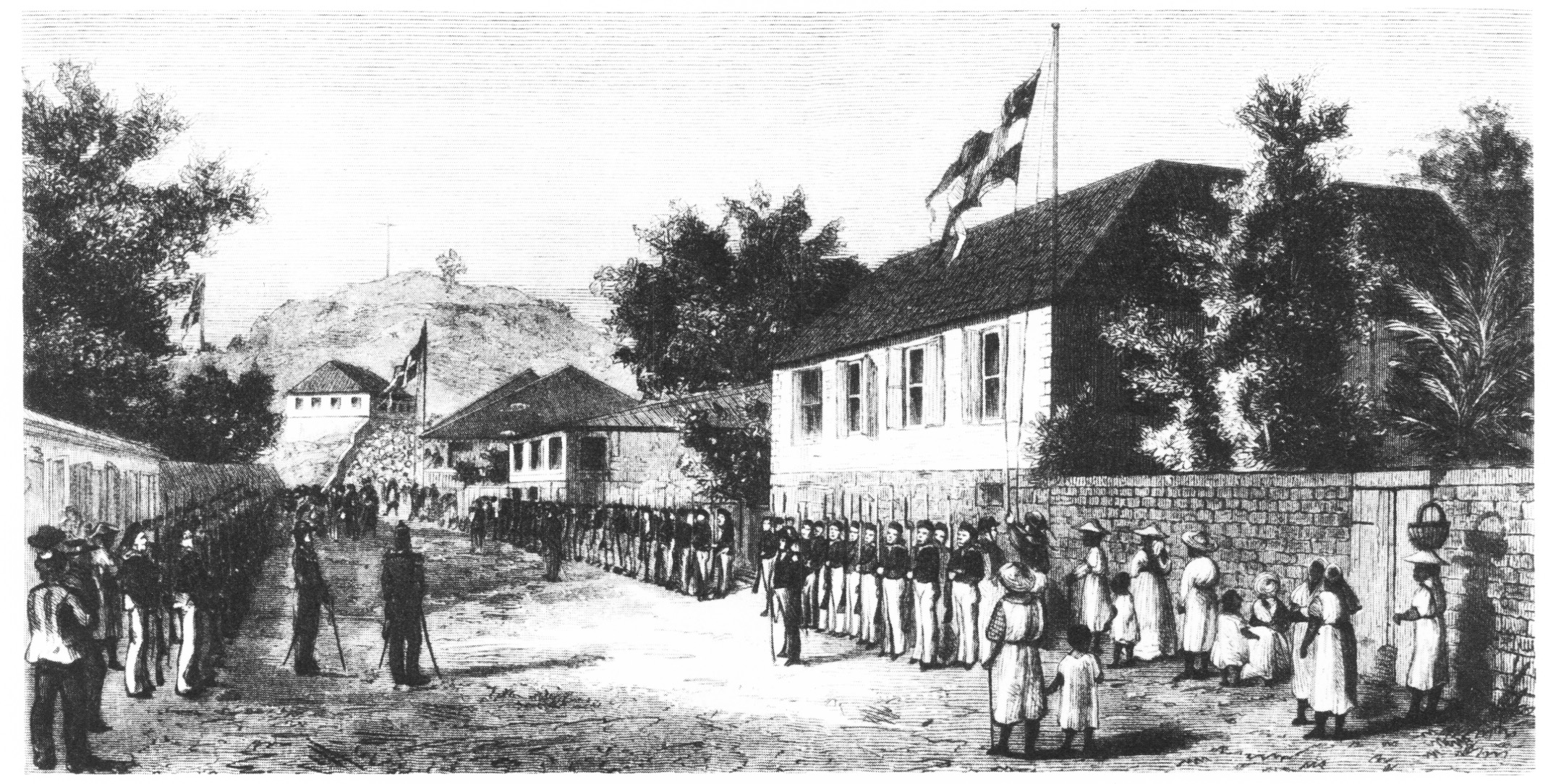 Saint Barthélemy. Ceremony when Sweden gave the island back to France in 1878